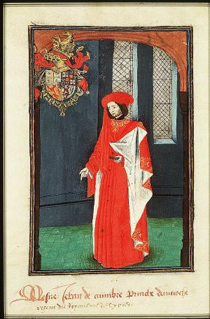 Statuts, Ordonnances et Armorial de l'Ordre de la Toison d'Or (Statutes, Ordonnances and armorial of the Order of the Golden Fleece) Place of origin, date: Southern Netherlands; 1473. Added sections: Southern Netherlands; 1478 or shortly after and 1491 or shortly after Material: Vellum, ff. 86, 249x187 (167x106) mm, 23 lines, littera cursiva (lettre bourguignonne). French. Binding: 18th-century brown leather Decoration: 1 full-page miniature (170x115 mm) with border decoration; 92 miniatures (185/155x120/100 mm); 1 historiated initial (80x90 mm) with border decoration; decorated initials with border decoration (ff., Added section: miniatures ; 4 drawings for miniatures (not finished) Provenance: Presented in 1473 by Gilles Gobet, King of Arms of the Order of the Golden Fleece, to Charles the Bold, Duke of Burgundy and the other Knights during the Chapter of the Order held at Valenciennes; Treasure of the Golden Fleece, Brussls; taken away by the Treasurer C.-F. Humyn (d. 1735) or his daughter C.Ch. de Corte; by legacy to her daughter M.-L. de Corte, wife of Ph.-E. de Poederlé; purchased in 1781 at the Poederlé sale by G.-J- Gérard of Brussels; acquired in 1832 as part of the Gérard collection (no. A 27)